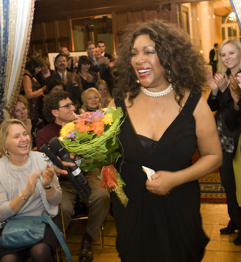 Mary Wilson at Spaso House